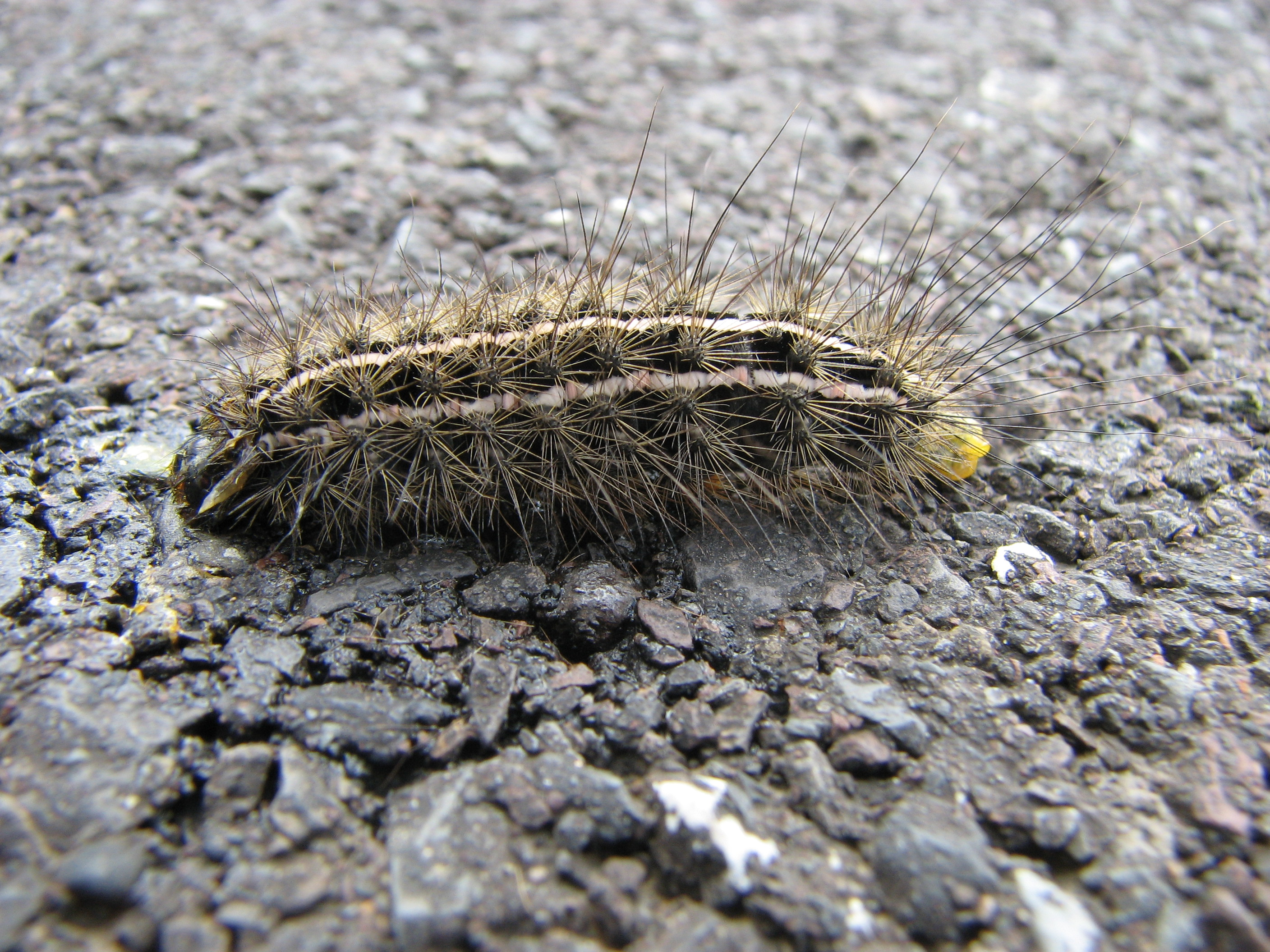 Grammia arge or Apantesis arge (Arge Moth) More details: Churchville Nature Center, Bucks County, Pennsylvania, USA. Bugguide